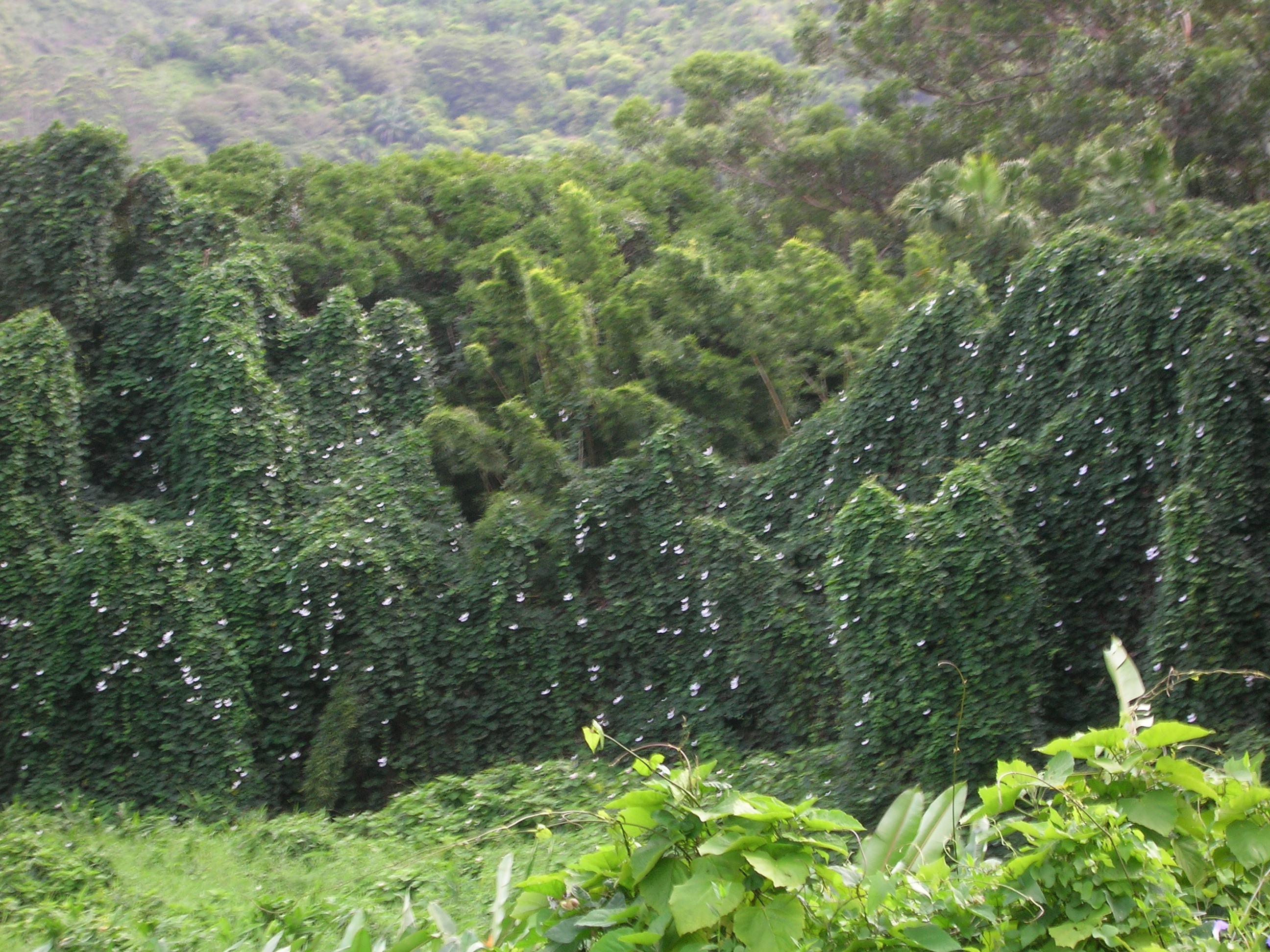 Thunbergia grandiflora (draping habit). Location: Oahu, Nuuanu